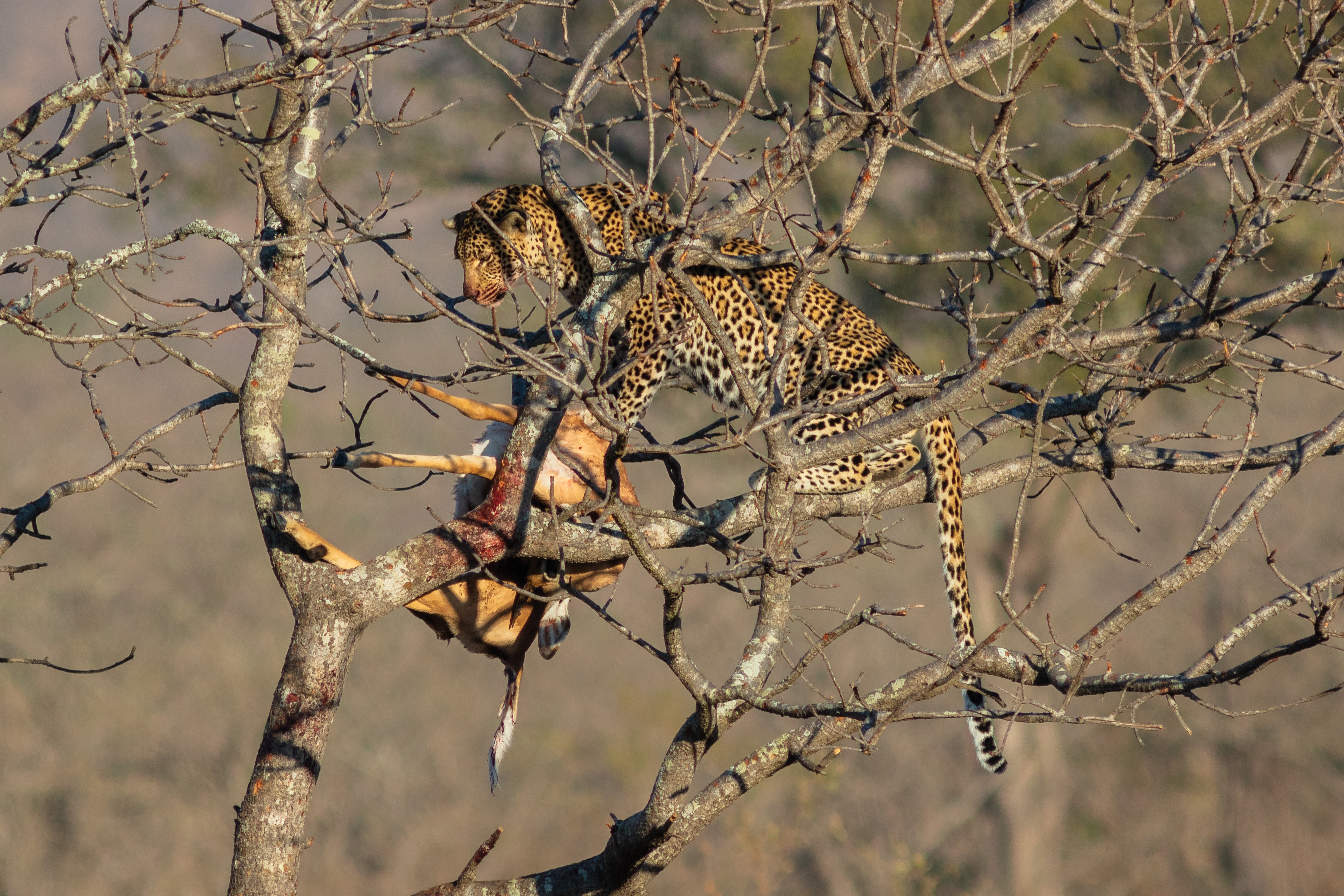 Leopard (Panthera pardus) devouring an antilope, Kruger National Park, South Africa